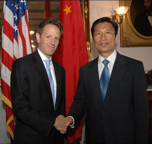 On October 13, 2009, Secretary Geithner met with member of the Politburo and Director of the Organization Department of the Central Committee of the Chinese Communist Party Li Yuanchao in Washington, D.C.